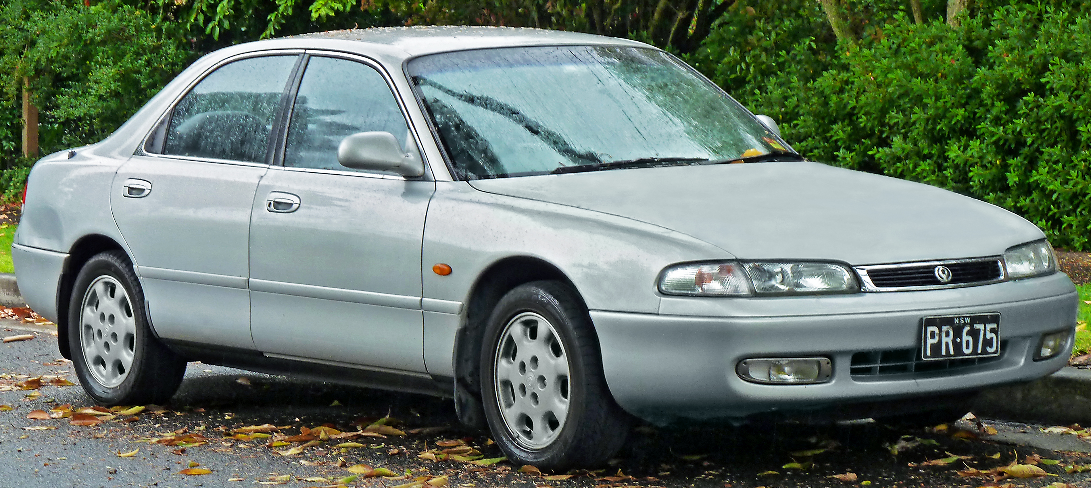 1993 Mazda 626 (GE) V6 sedan. Photographed in Roseville, New South Wales, Australia.